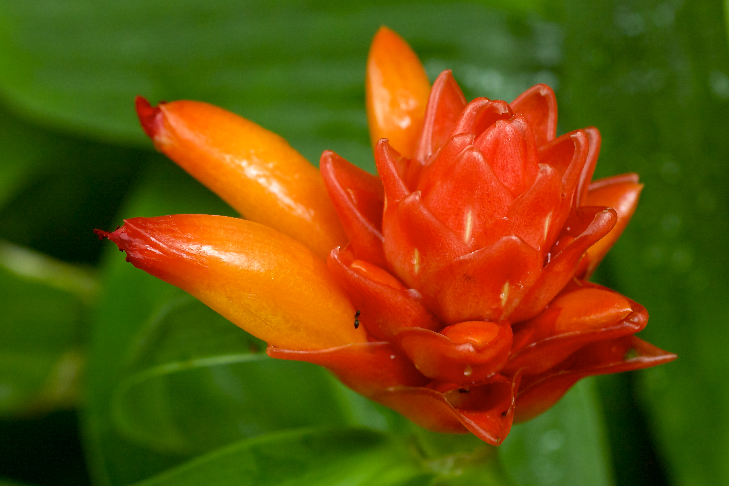 Species from Costa Rica and PanamaPhotographed at the Conservatory of Flowers, Golden Gate Park, San Francisco